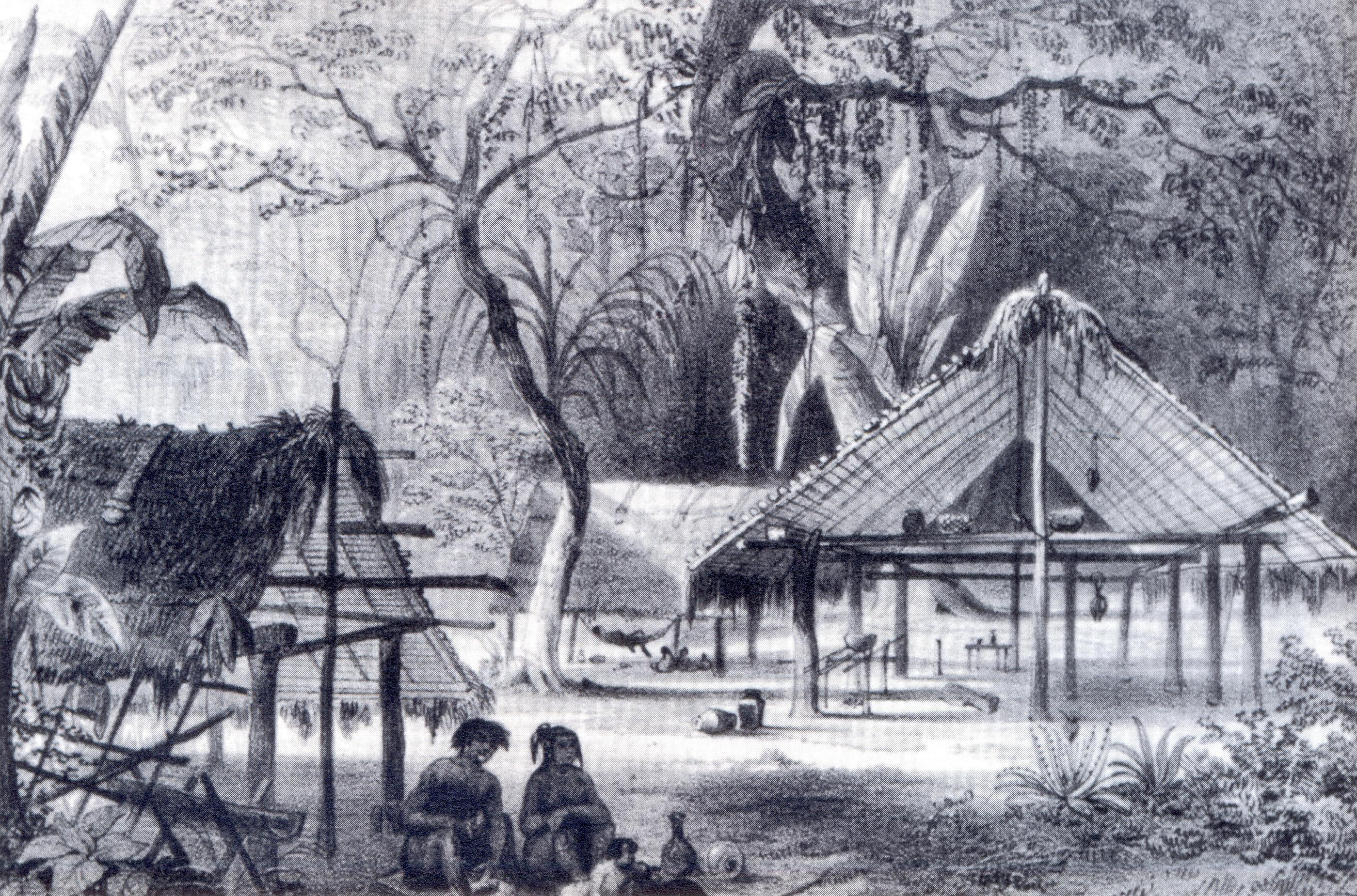 Engraving of an Amazonian village, probably Kali'na.